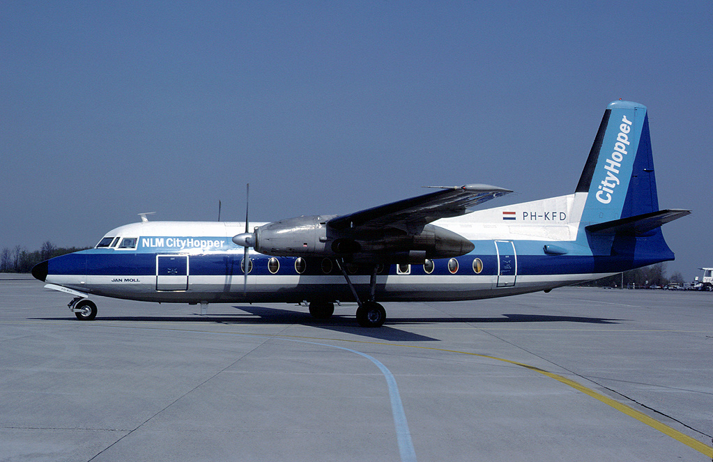 An NLM CityHopper Fokker F-27-200 at Euroairport (LFSB)